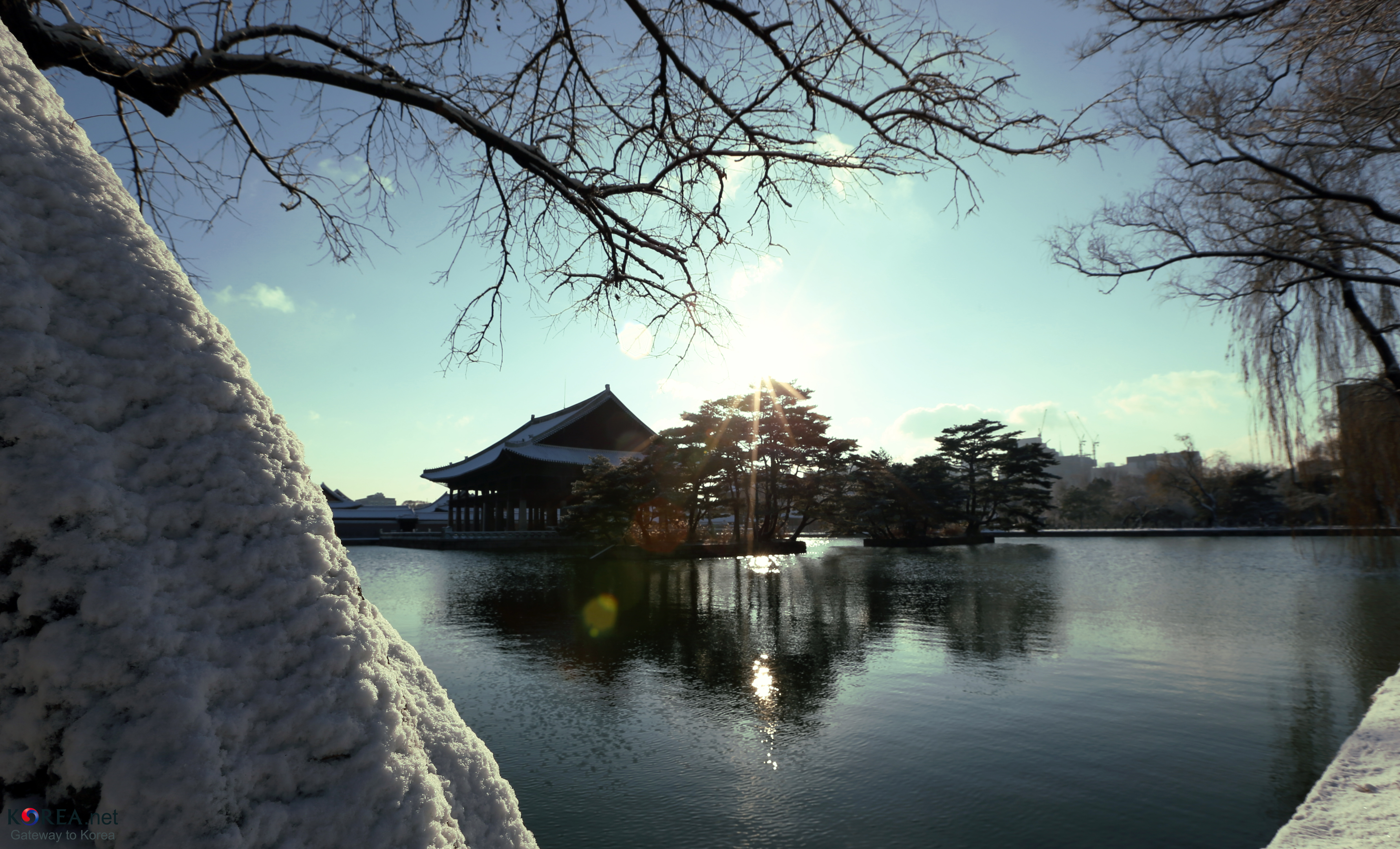 A Morning’s Snowfall in Seoul December 11, 2013. Gyeongbokgung Palace, Jongno-gu, Seoul Ministry of Culture, Sports and Tourism Korean Culture and Information Service ( JEON HAN 눈 내린 서울 아침 2013-12-11 경복궁, 서울 문화체육관광부 해외문화홍보원 코리아넷 전한